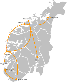 Rutekart Busy Bee